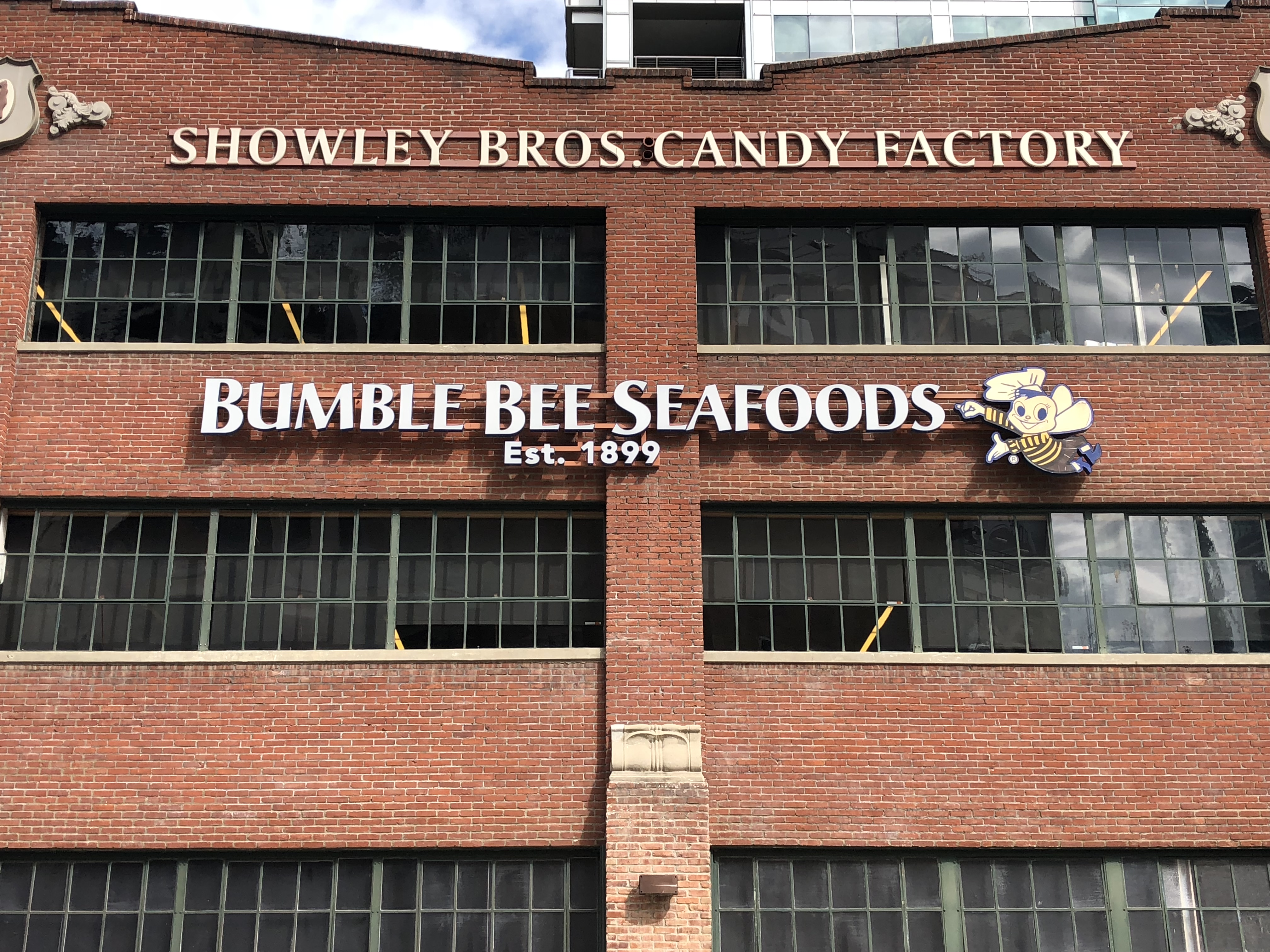 This is a photo of the building in San Diego leased by Bumble Bee Foods.